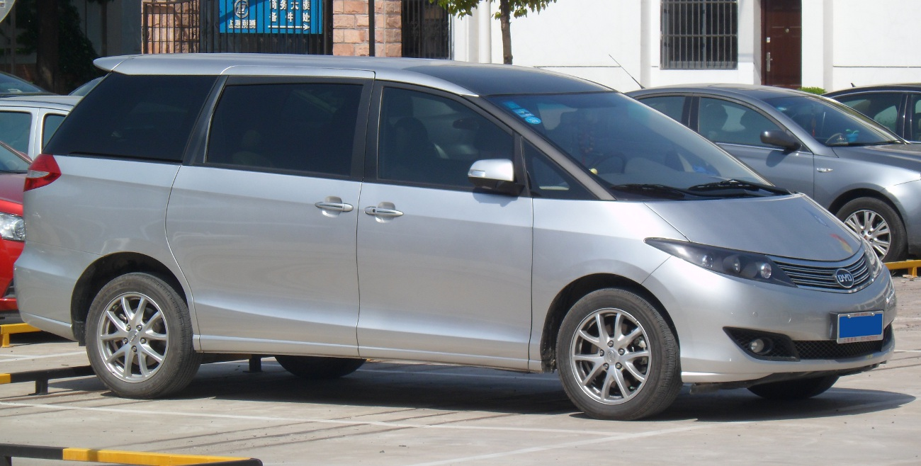 BYD M6 photographed in Shanghai, China.